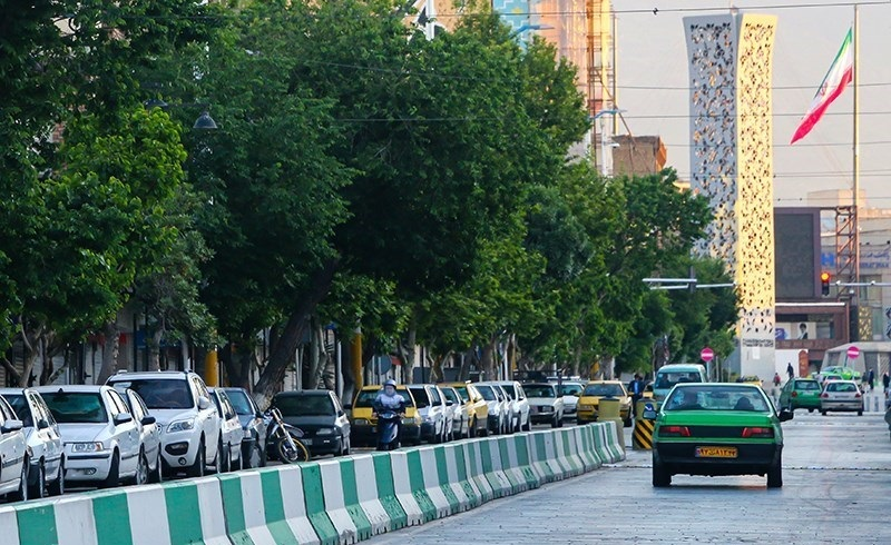 حال و هوای بهاری در تهران